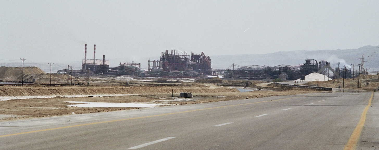 Dead Sea Industries